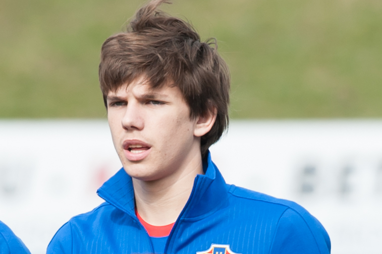 European Under-19 Championships 2015 Elite Round, Austria vs. Croatia, 28/03/2015 Wiener Neustadt, Lower Austria